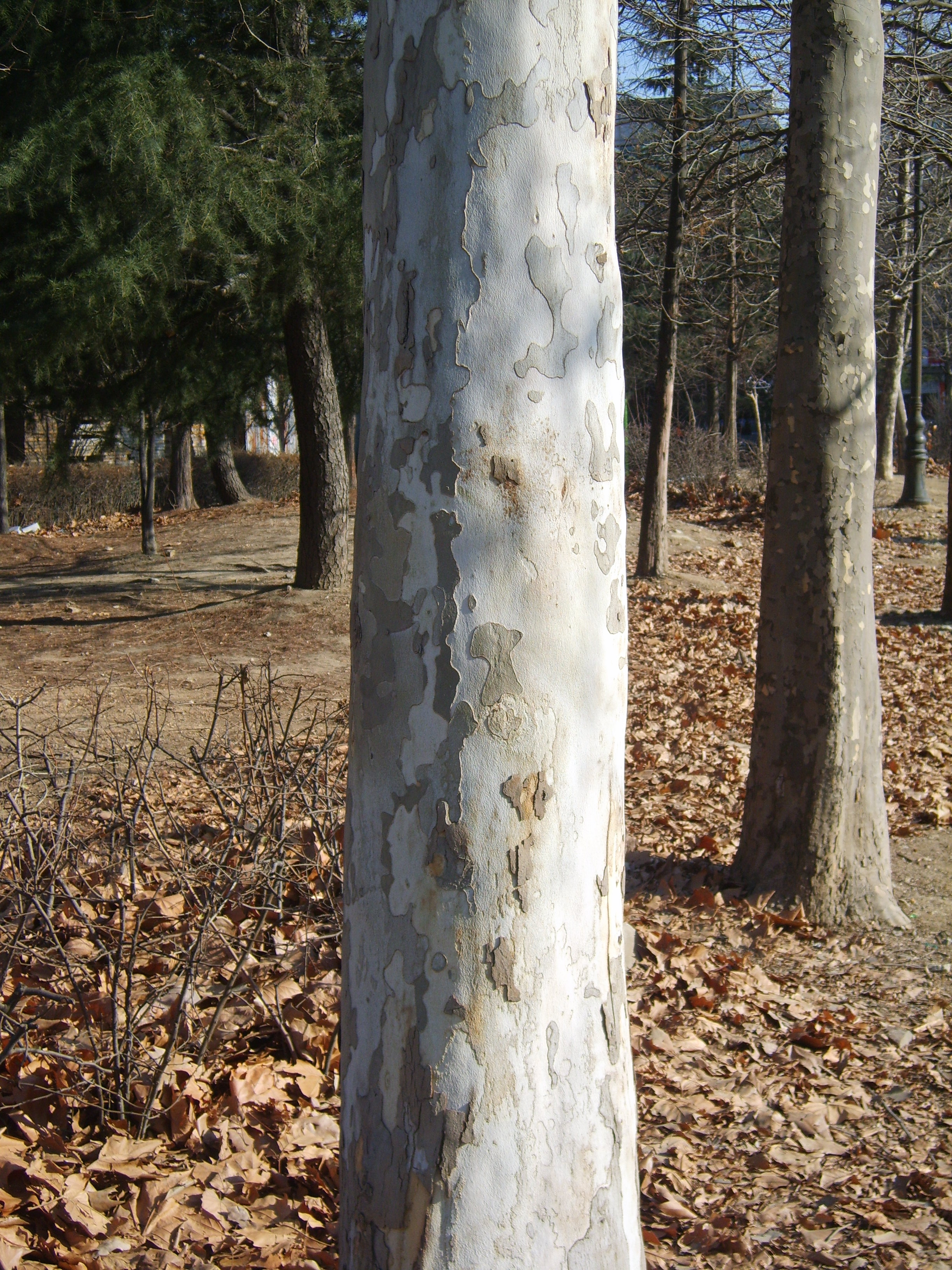 Platanus occidentalis trunk in Incheon Korea